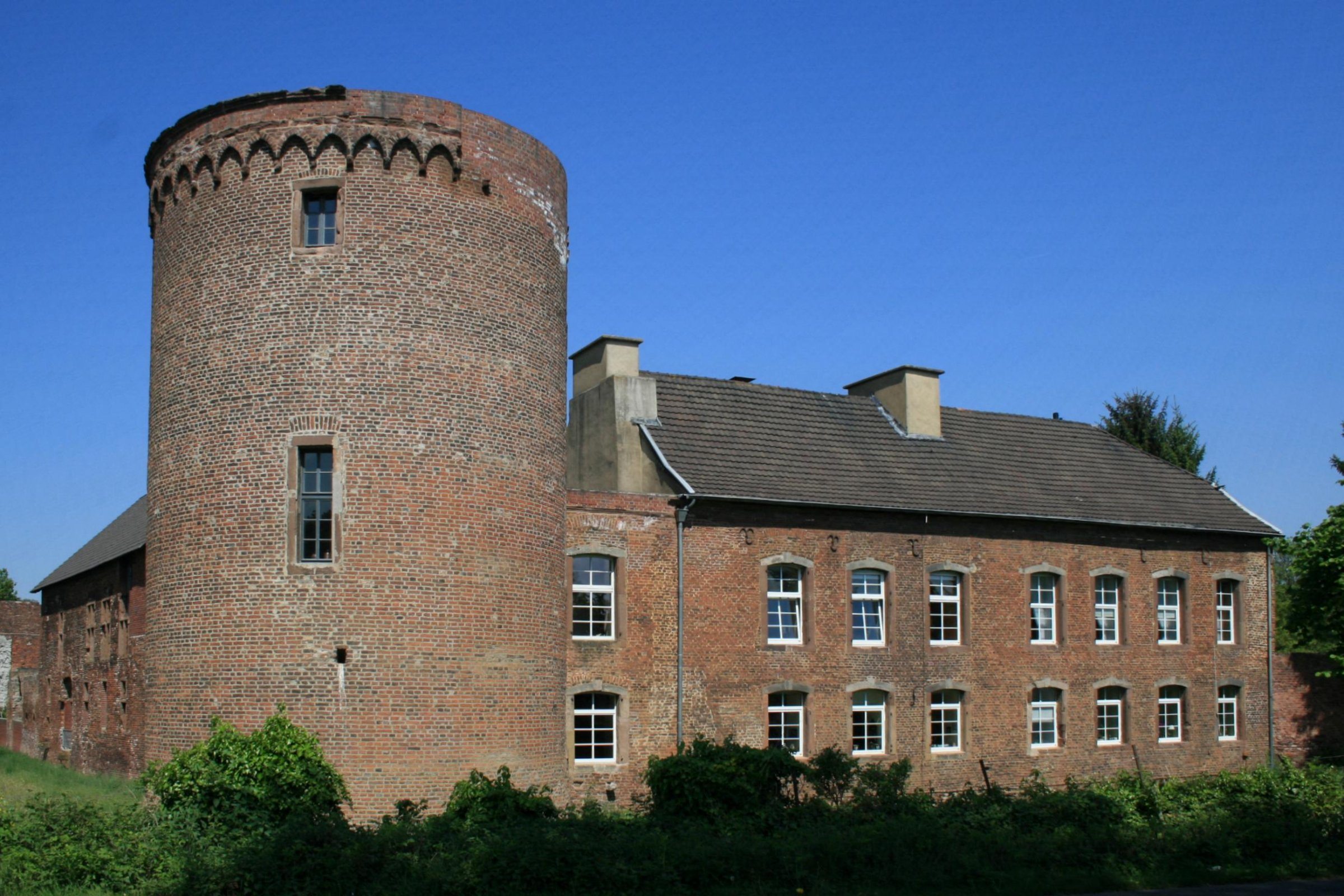 Cultural heritage monument No. 6 in Niederzier